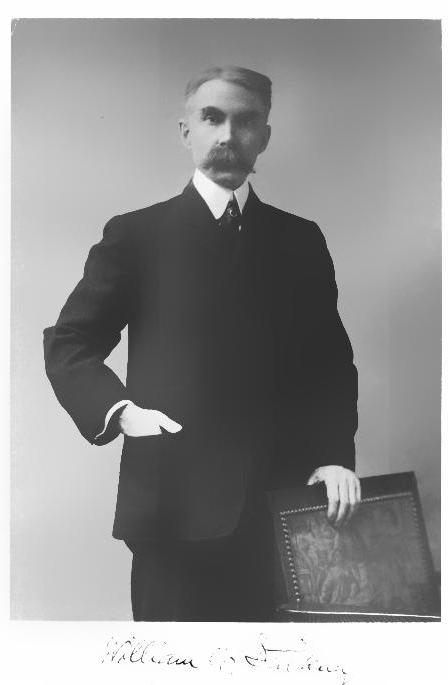 William W. Stickney